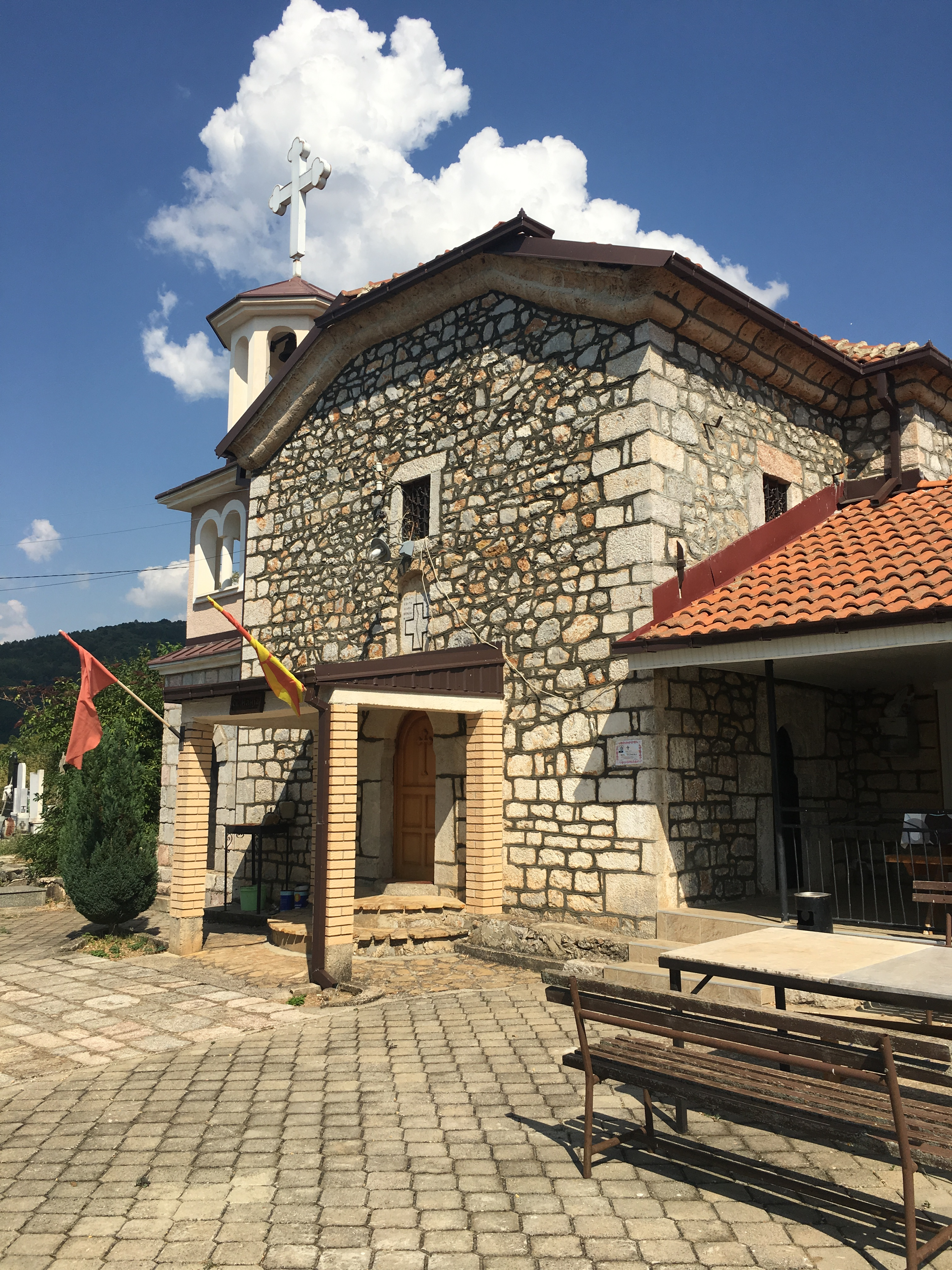 St. Elijah Church's yard in the village of Ramne